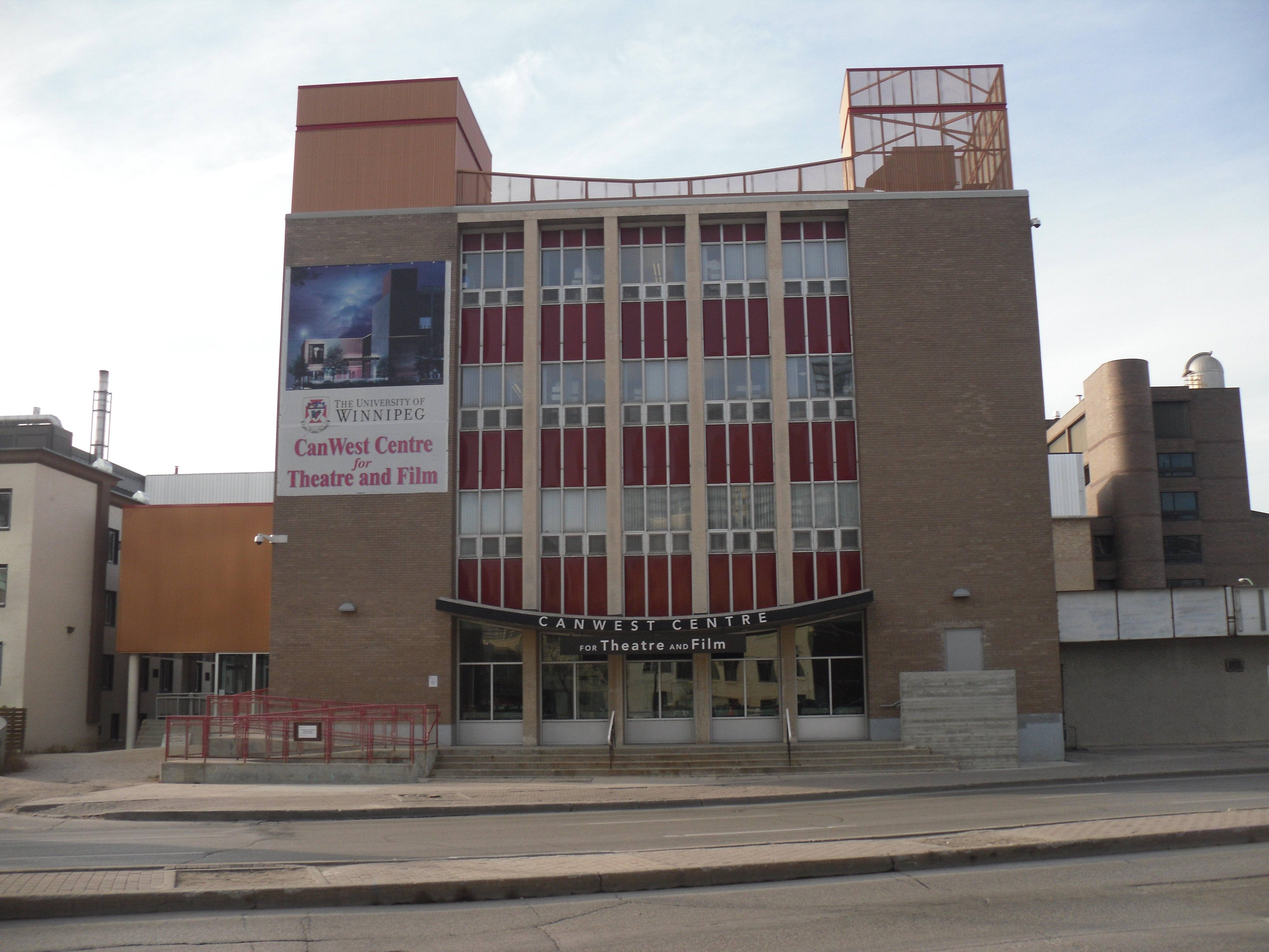 University of Winnipeg, Canwest Centre for Theatre and Film